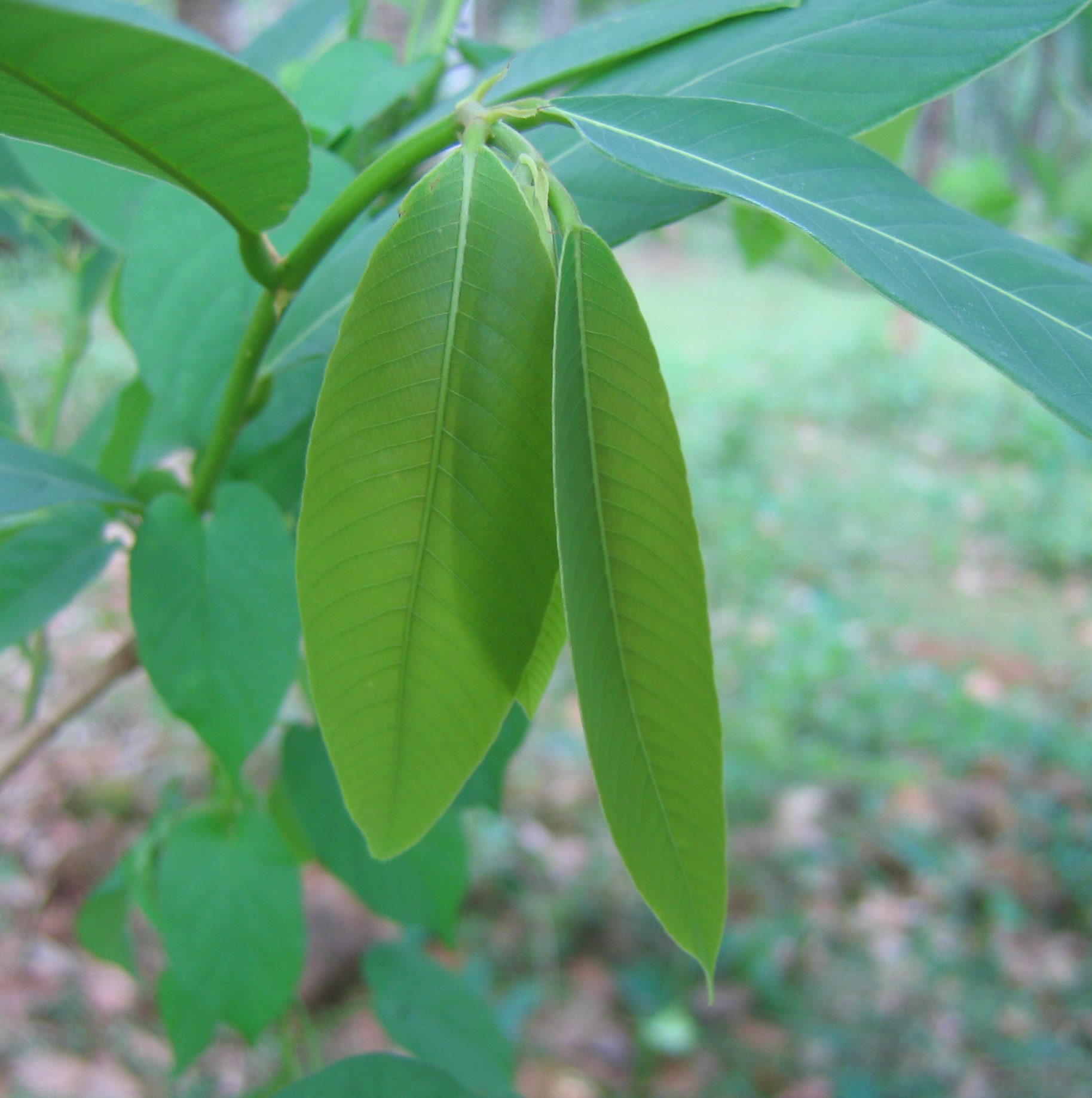 Bridelia retusa - മുള്ളുവേങ്ങ